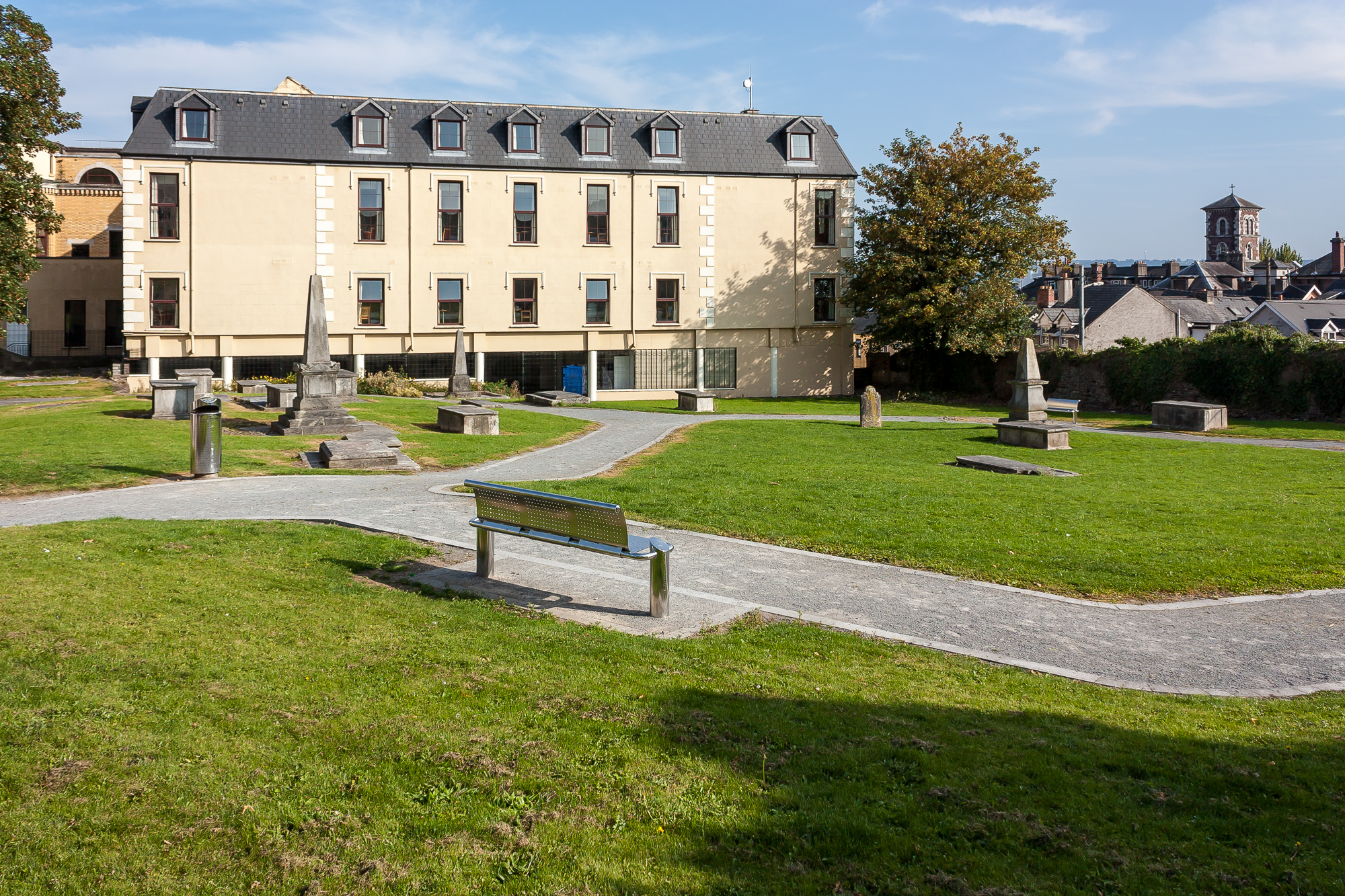 North Infirmary-St Annes Church